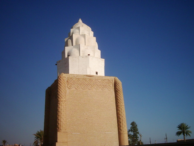 The shrine of Imam Muhammad Al-Durri in Al-Dour city - Iraq in year 2005.